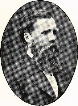 Gustaf Magnus Bolling (1839-1901), Swedish physician and psychiatrist